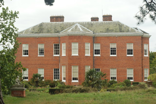 Hatchlands Park, Clandon, Surrey Looking towards the house, across the formal garden which is set at a slightly lower level. The whole of this side of the house is within this grid square.